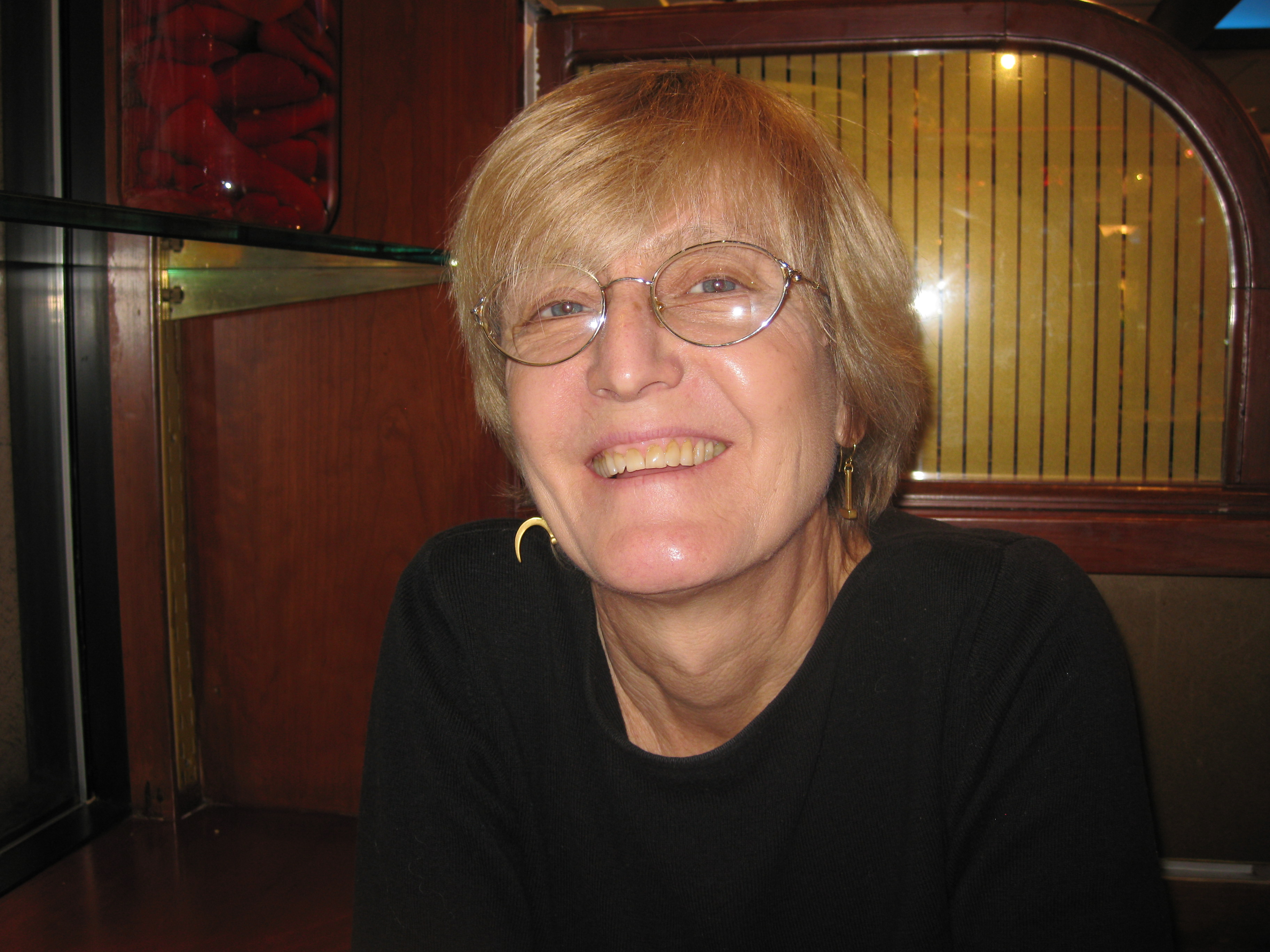 Picture of Doctor Barbara Foley Other information I sent an email with the permission but never got a reply: I hereby affirm that Barbara Foley the creator and/or sole owner of the exclusive copyright of attached. (Barbara_foley.jpg) I agree to publish the above-mentioned content under the free license: Creative Commons Attribution-ShareAlike 3.0 Unported and GNU Free Documentation License. I acknowledge that by doing so I grant anyone the right to use the work in a commercial product or otherwise, and to modify it according to their needs, provided that they abide by the terms of the license and any other applicable laws. I am aware that this agreement is not limited to Wikipedia or related sites. I am aware that I always retain copyright of my work, and retain the right to be attributed in accordance with the license chosen. Modifications others make to the work will not be claimed to have been made by me. I acknowledge that I cannot withdraw this agreement, and that the content may or may not be kept permanently on a Wikimedia project. Barbara Foley 04/17/2015